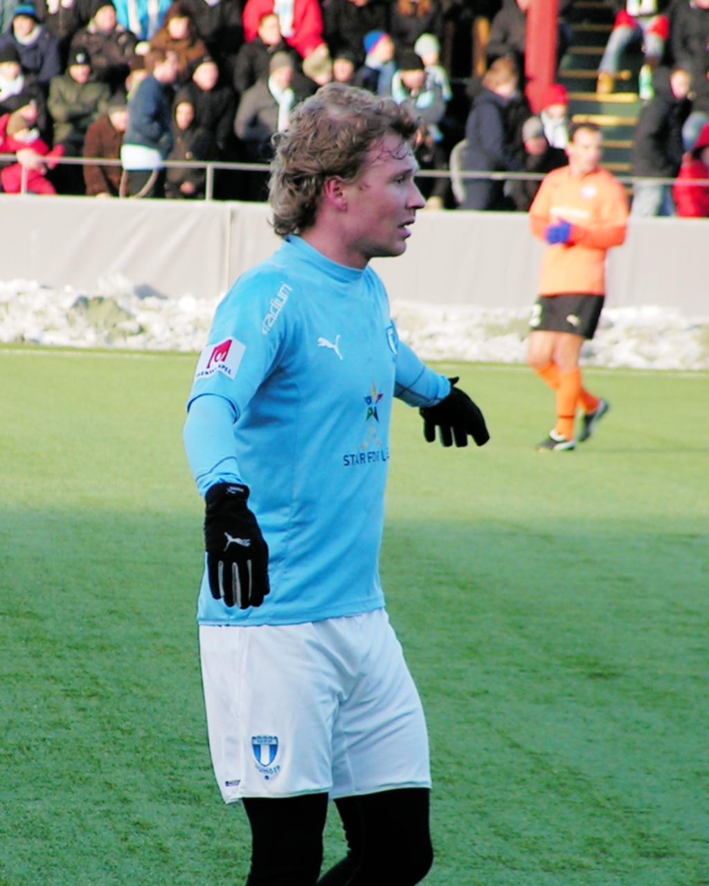 Rick Kruys for Malmö FF in a friendly game vs HB Köge 23 Jan 2010 at Malmö IP in Malmö, Sweden.